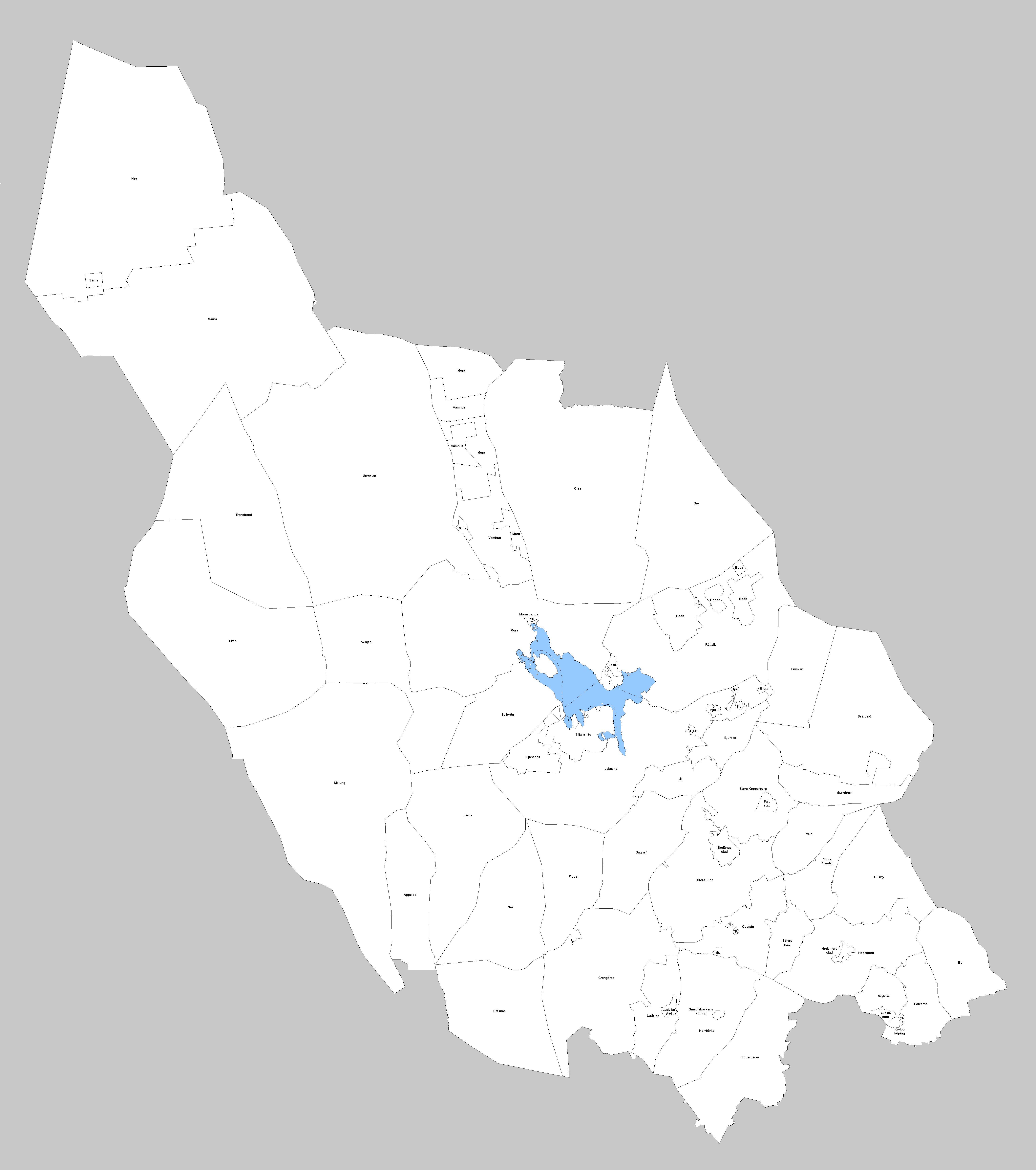 Old municipalities in Kopparberg county on the 1st of januari 1952